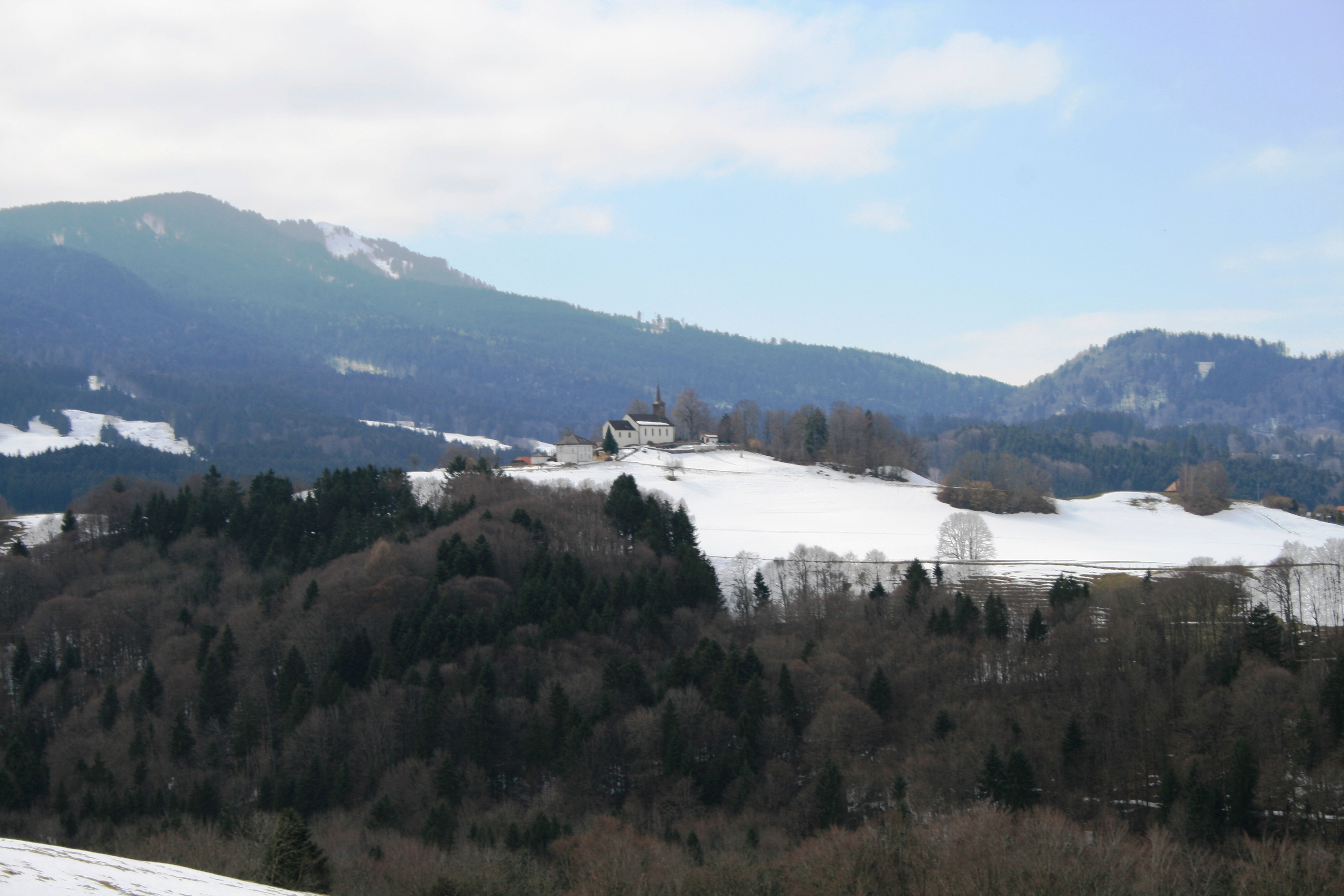 rom.-cath- church of St. Solvester FR, Switzerland